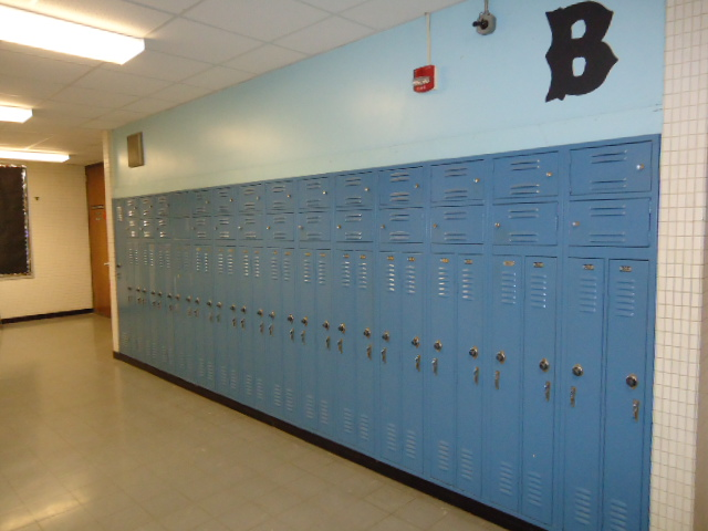 Lockers in the B Building Hallway in West Virginia's Weir High School.